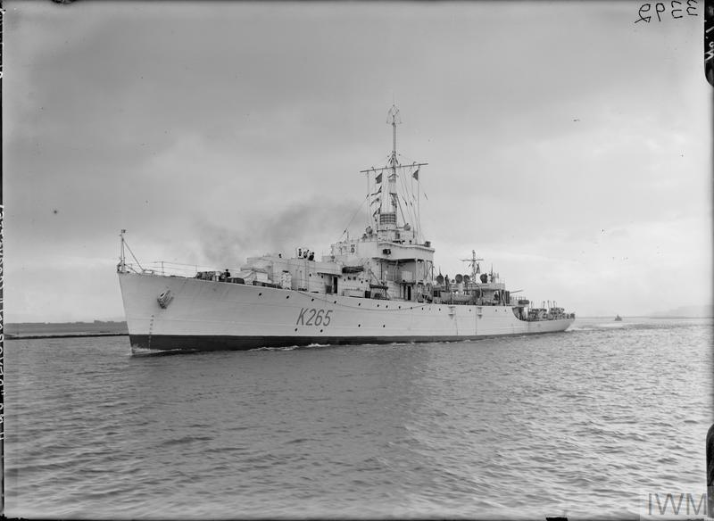 Photograph of British River-class frigate HMS Deveron. Later Transferred to Pakistan Navy as PNS Zulfiqar (K265)